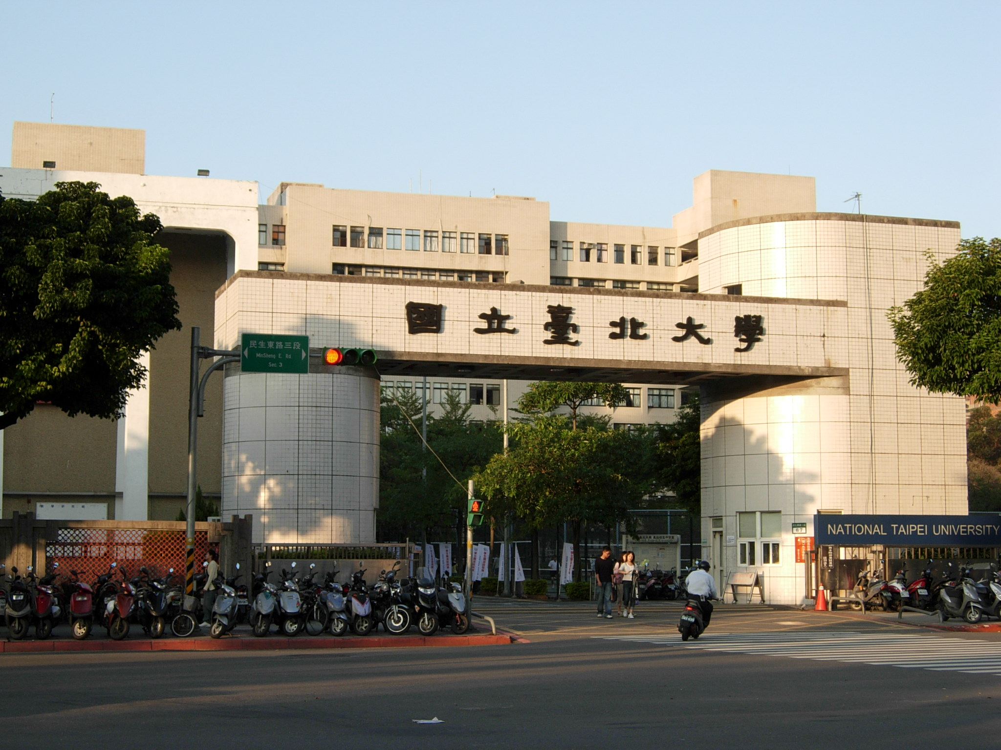 Minsheng Campus, National Taipei University中文（台灣）: 國立臺北大學民生校區，位於臺灣臺北市中山區民生東路三段67號。